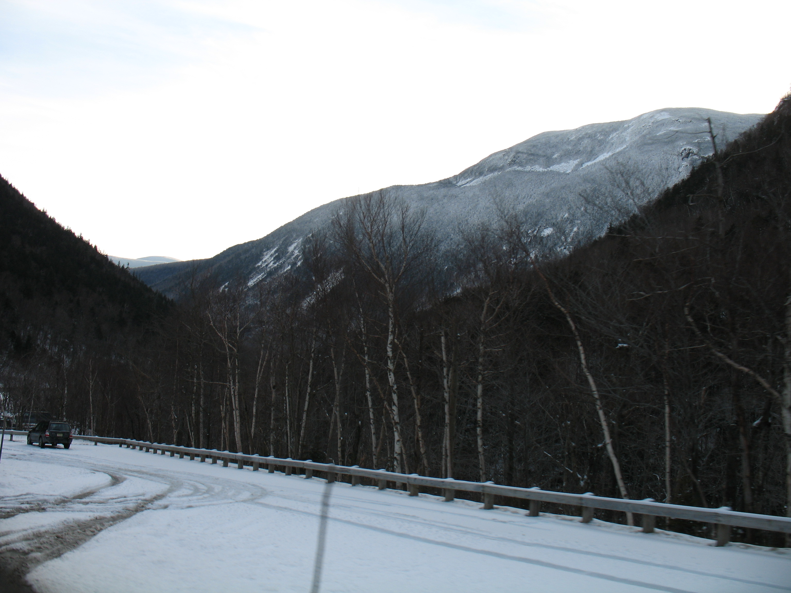 Mount Willey, seen from Crawford Notch.